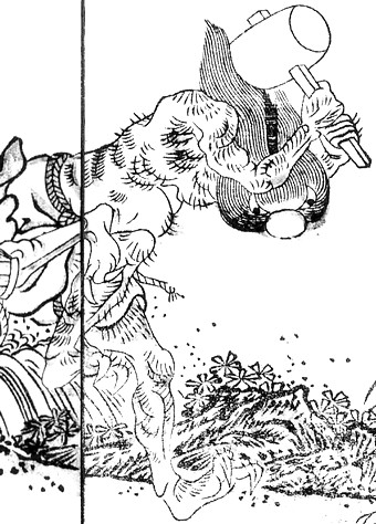 Yarikechō (槍毛長, a spear monster) from the Hyakki Tsurezure Bukuro (百器徒然袋)